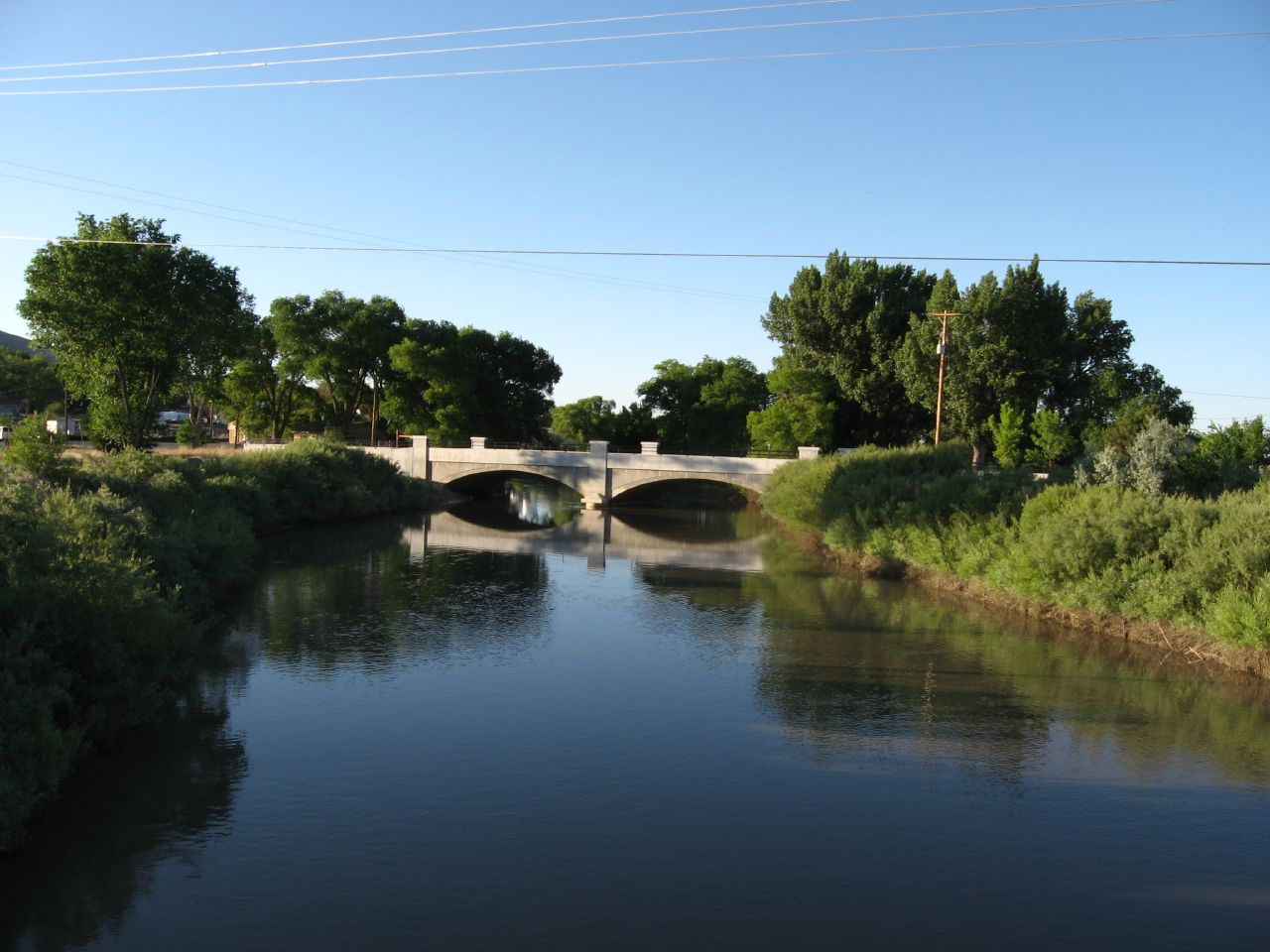 Humboldt River, Winnemucca, Nevada. The longest river in the continental U.S. that doesn't cross a state boundary.